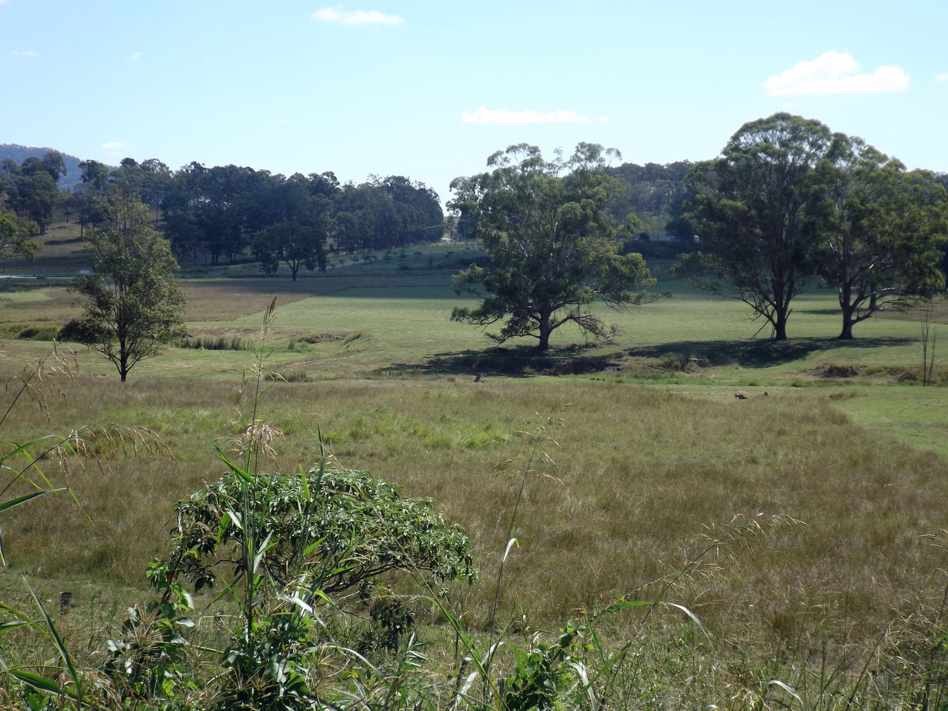 Photo of paddocks along Beaudesert Boonah Road at Bromelton, Scenic Rim Region, Queensland, Australia.